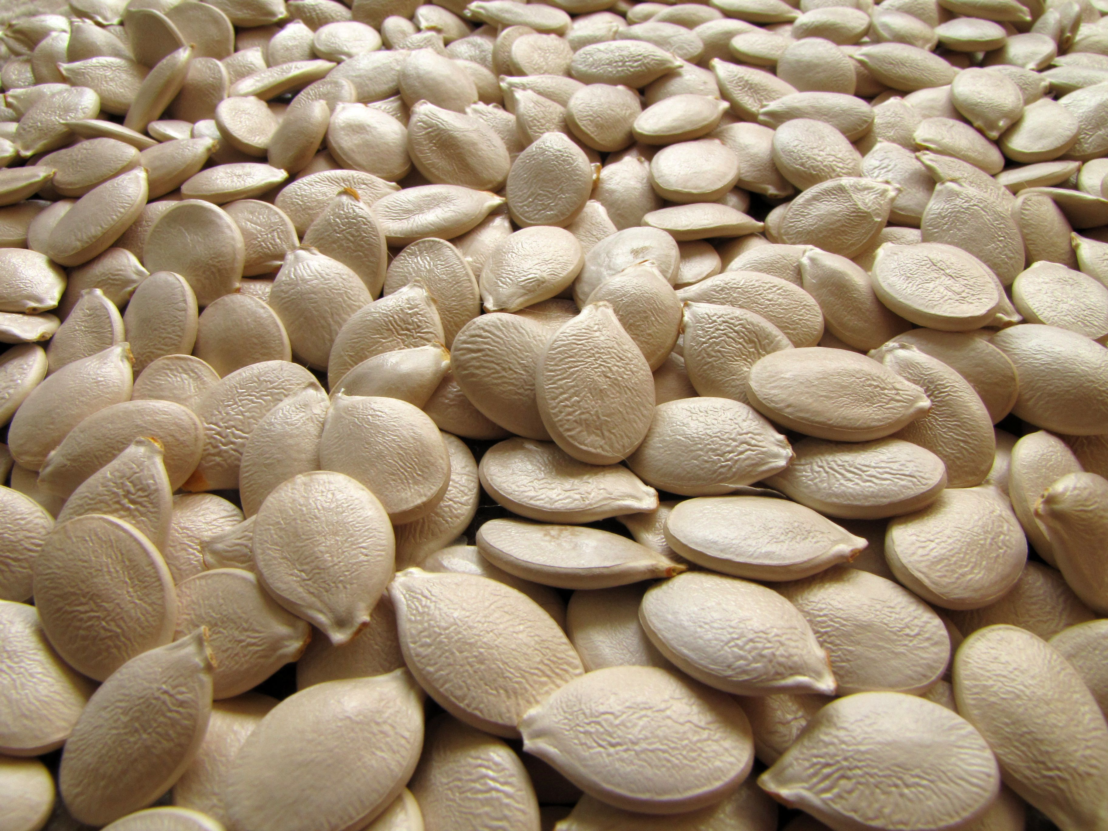 Pumpkin seeds